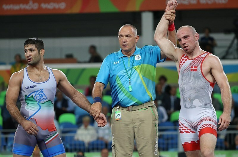 Wrestling at the 2016 Summer Olympics to 75 kg